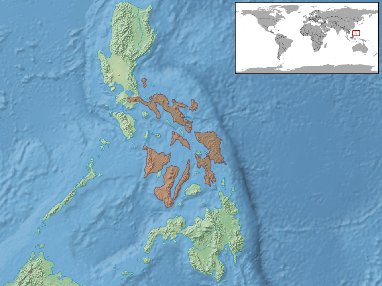 geographic distribution of Tropidophorus grayi